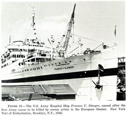 The U.S. Army Hospital Ship Frances Y. Slanger, New York Port of Embarkation, Brooklyn, N.Y., 1945